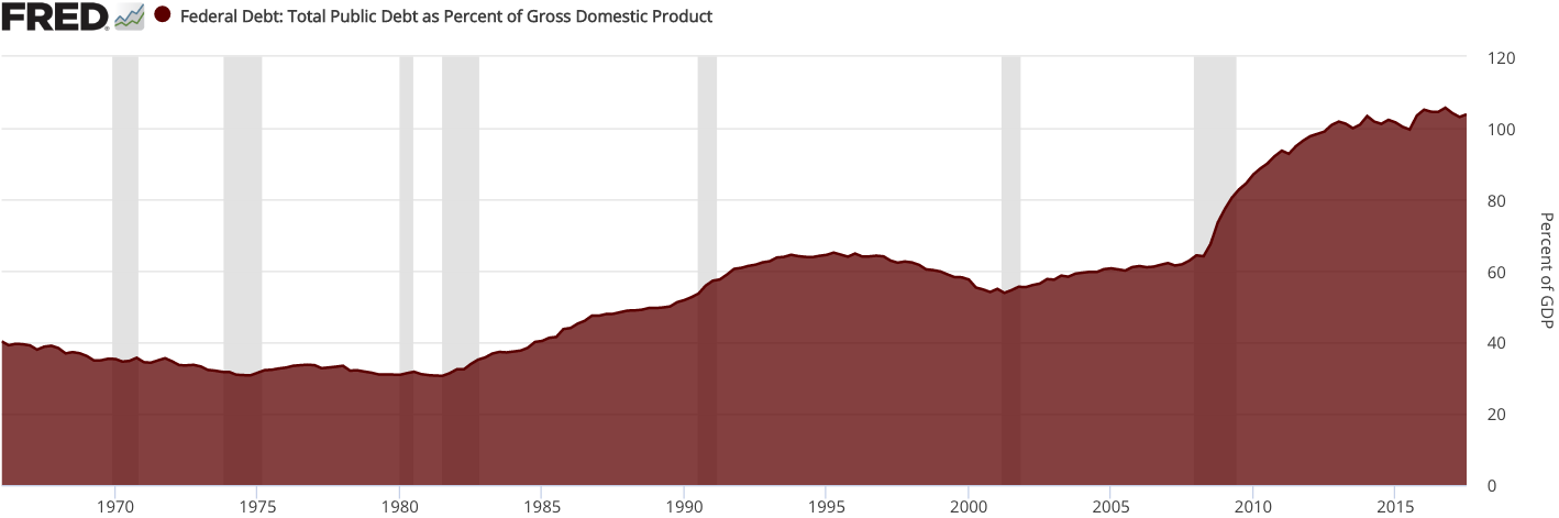 United States national debt as a percent of GDP